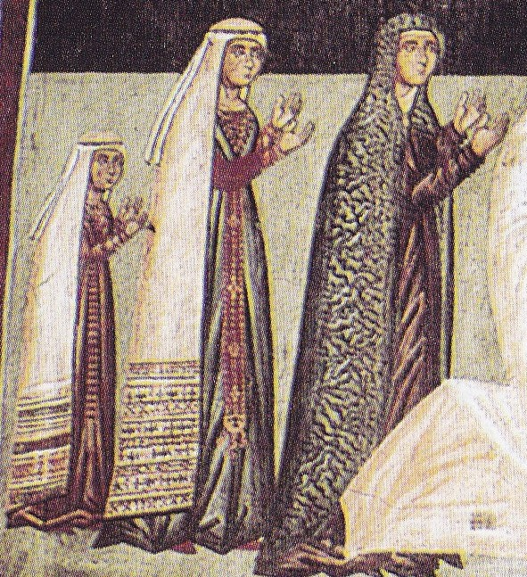 Helena Palaiologina of Morea, Queen of Cyprus and her daughters Charlotte and Cleopha